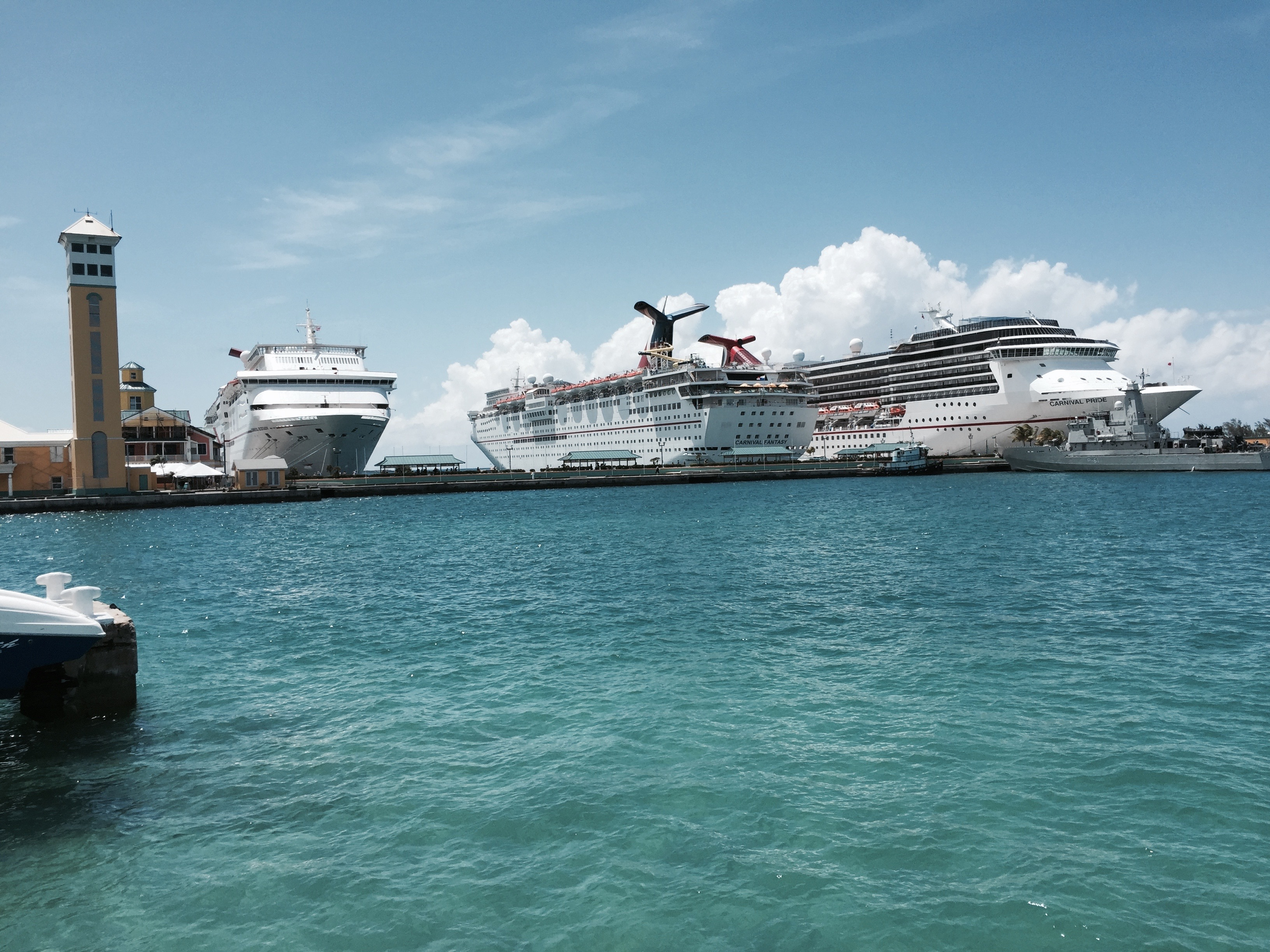 Three Carnival cruise ships, Ecstasy, Fantasy and Pride, docked in Nassau, the Bahamas. Bahamas Navy HBMS Nassau (P-61) is also shown. right of Pride.